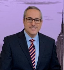 LIVE: Joining @rickjnewman @juleshyman @Ajshaps on @YahooFinance talking about how we will invest in this country, our workers & education system so our kids actually have a fighting chance in the 21st century.